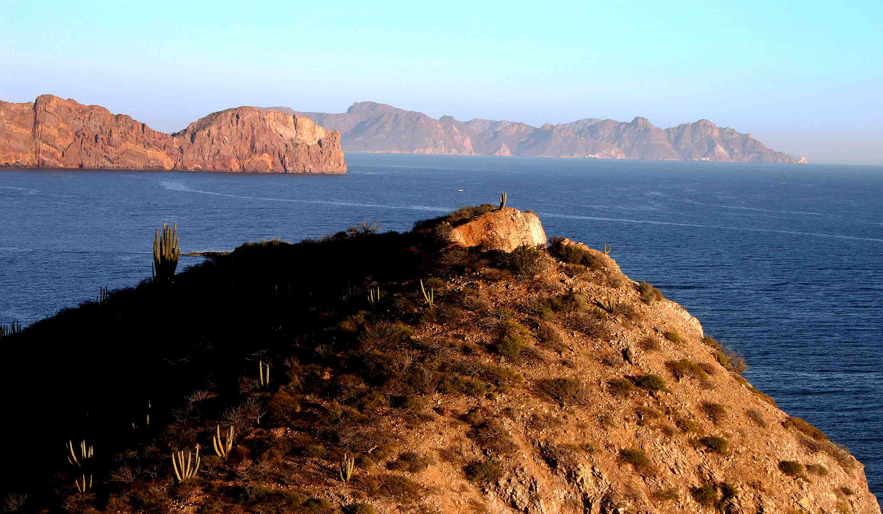 View of San Carlos Bay, Sonora, México